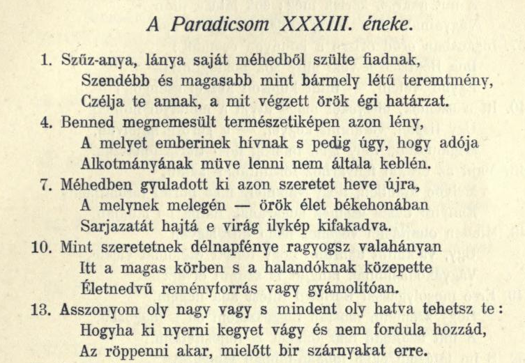 Picture of a text of Gyula Bálint